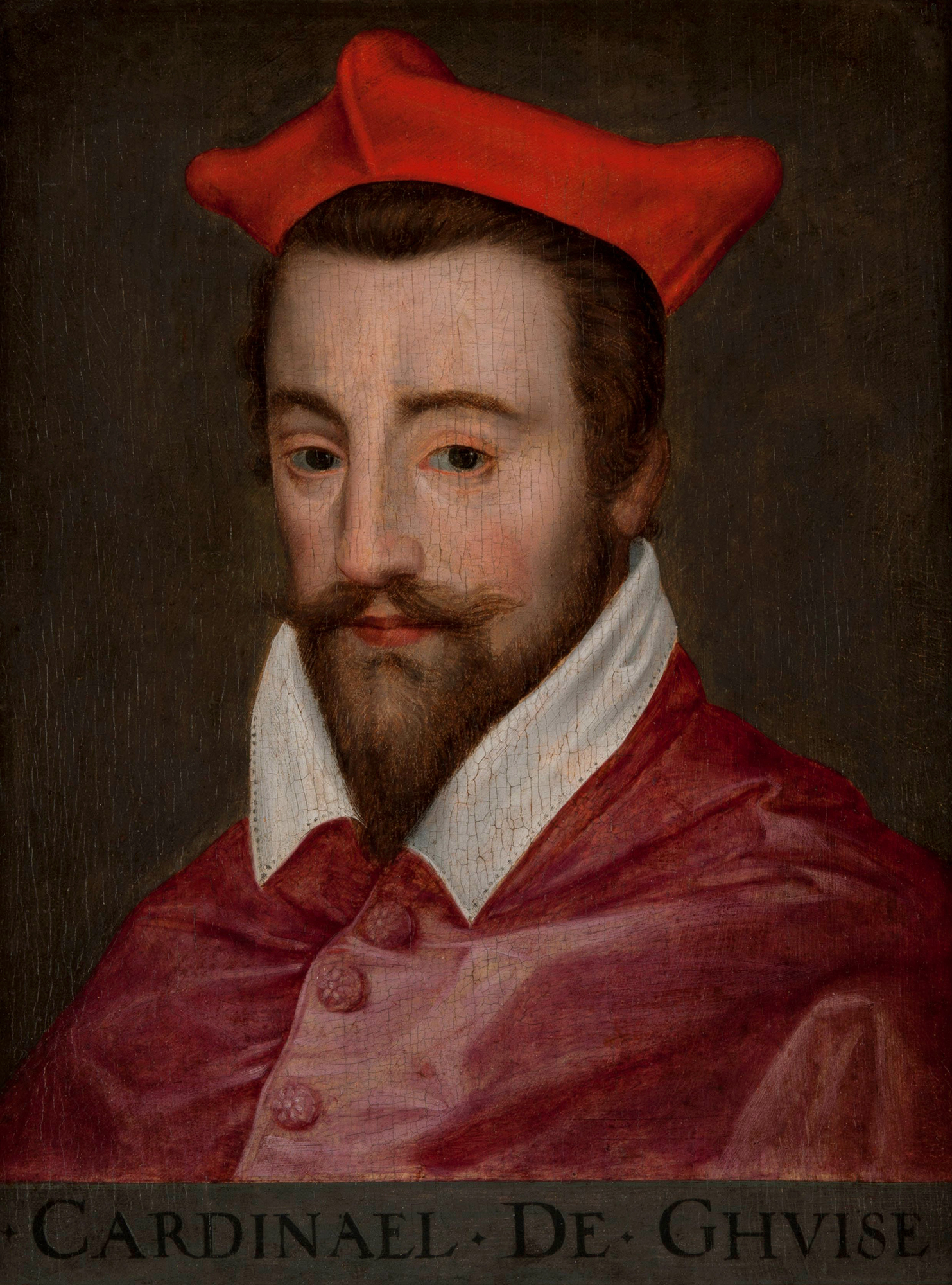 Louis II de Lorraine (1555-1588), Cardinal of Guise (1578), Archbishop of Reims (1574-1588)